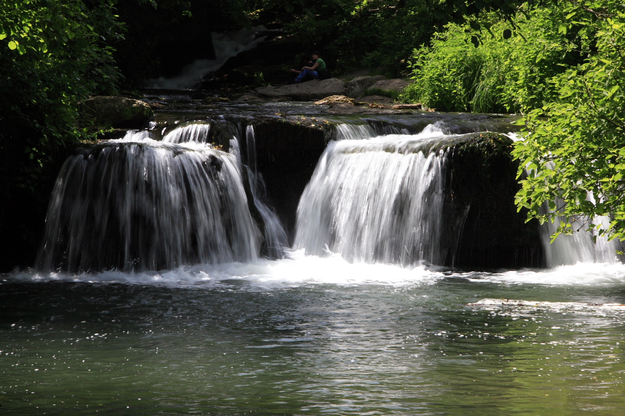 Some of the pretty waterfalls at Monte Gelato in the Treja Valley